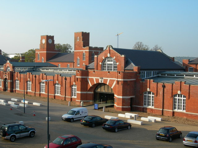 University of Greenwich, Parade Ground and Drill Hall Library This was once part of the Royal Naval Barracks, HMS Pembroke. It is now part of the University of Greenwich. The building was completed around 1902.